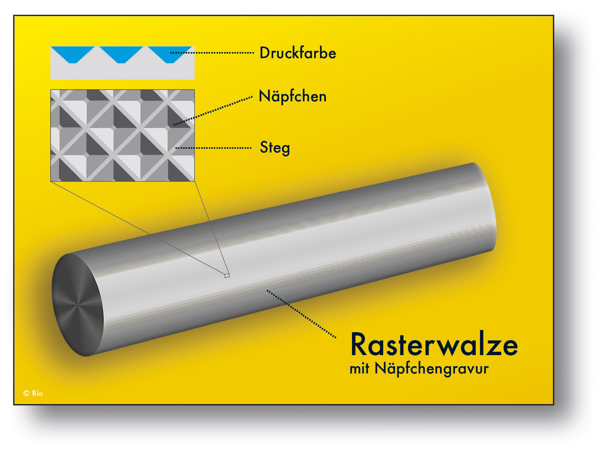 Aniloxroller